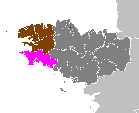 Maps of arrondissements and cantons of France: Arrondissement de Quimper.PNG